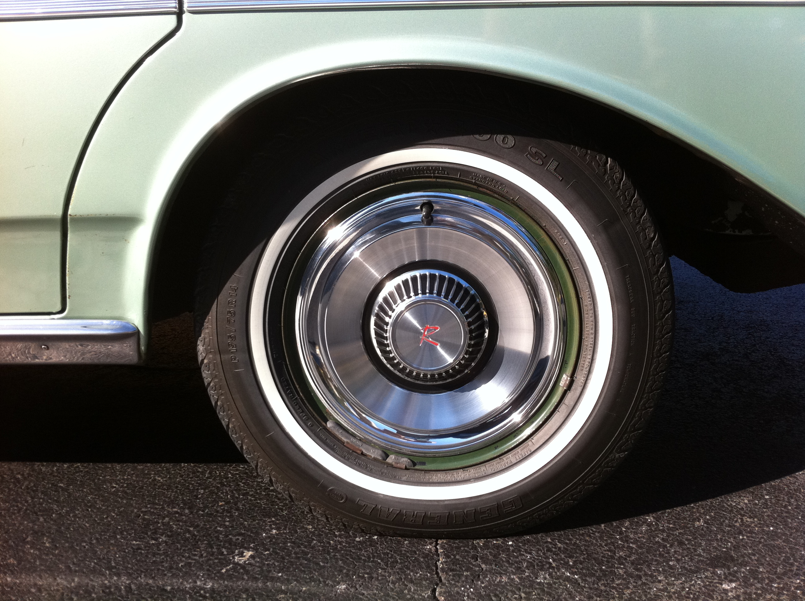 Detail of the full wheel cover and white wall tire on the 1964 Rambler Classic 770 station wagon -- built by American Motors Corporation (AMC).